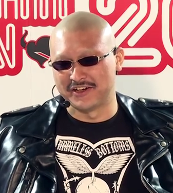 Mafia Kajita, writer, attended the Tamashii Nation 2016 at Akihabara UDX in Chiyoda Ward, Tōkyō Metropolis on October 28, 2016.